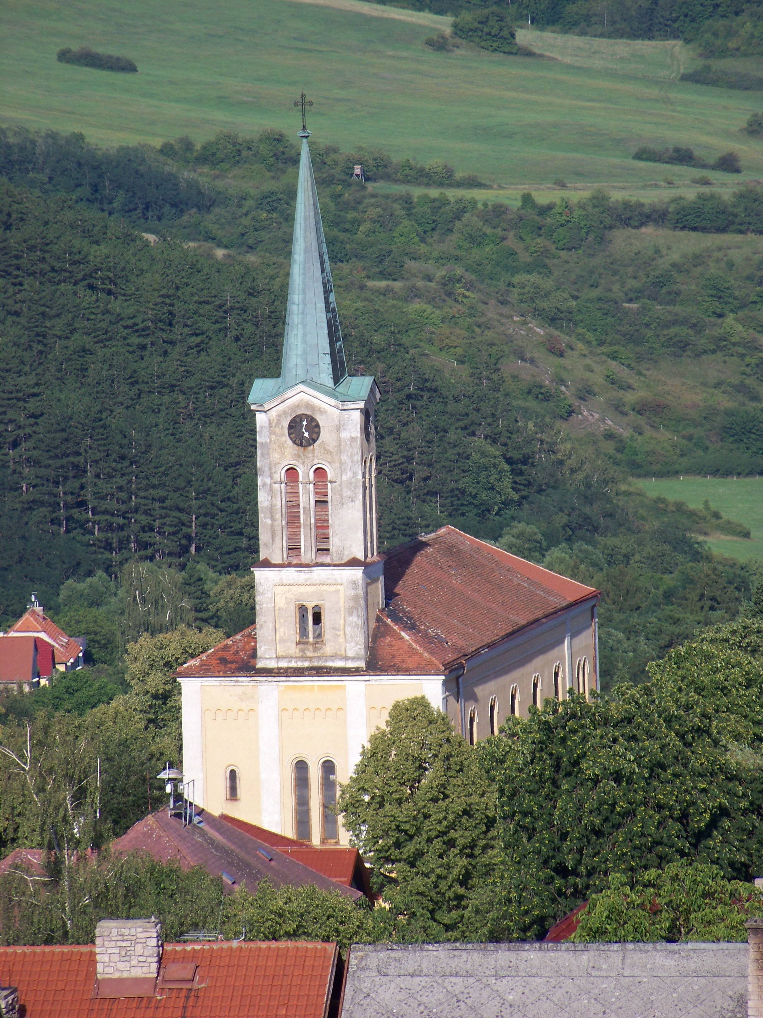 Hudlice, Beroun District, Central Bohemian Region, the Czech Republic. Saint Thomas Church, a view from Hudlice Rock. - OpenStreetMap(Info)